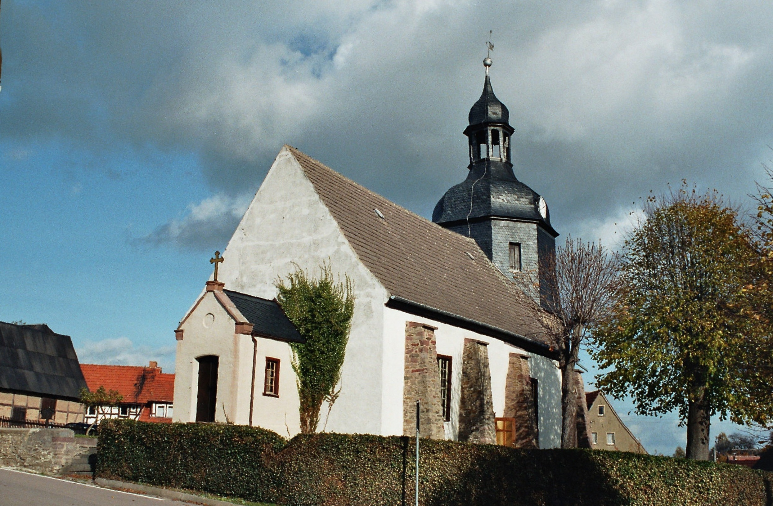 Rotha (Sangerhausen), the village church St. Nicolai This is a photograph of an architectural monument. 84356